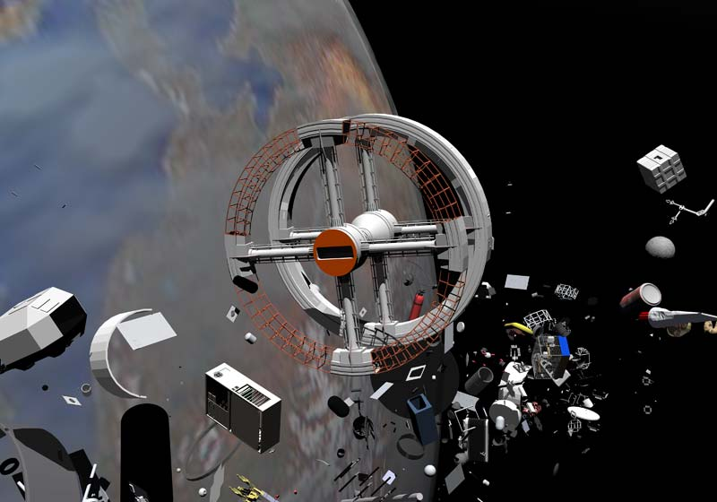 SpaceJunk, Miguel Soares, 2001, 3D animation.